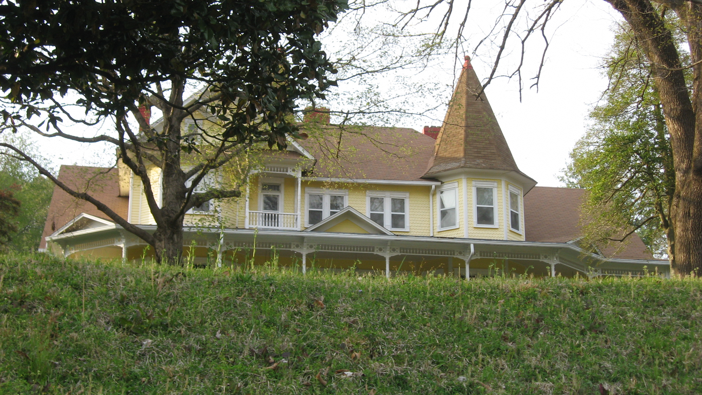 Front of the V.R. Harris House, located on the northern side of W. Main Street (State Route 49) in Erin, Tennessee, United States. Built in 1891, it is listed on the National Register of Historic Places.